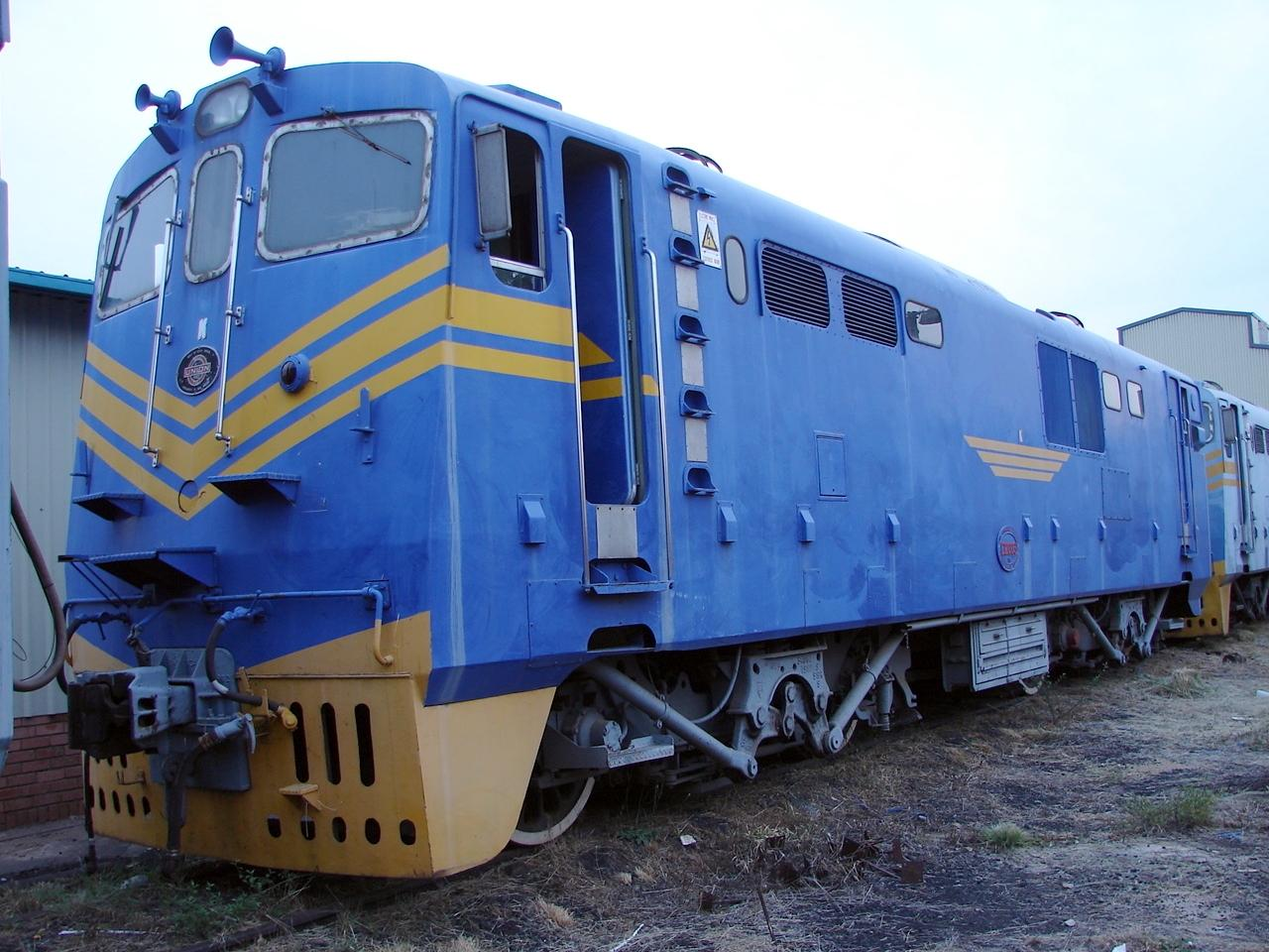 SAR Class 12E 12-003 Location: Koedoespoort, Pretoria, Gauteng